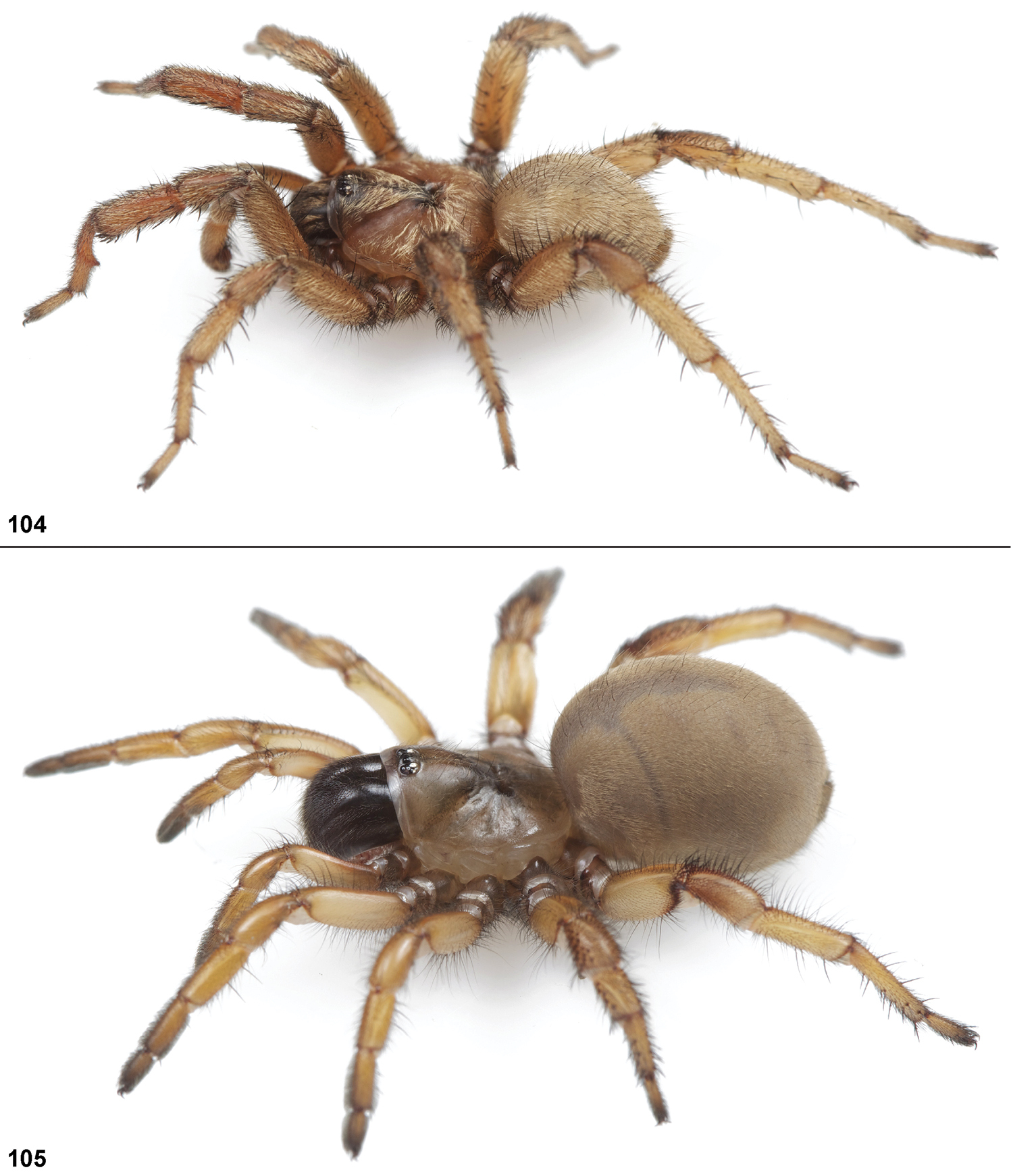 Aptostichus miwok from Mendocino Co., Inglenook Dunes area, live photographs. 104 male specimen (AUMS18) 105 female specimen (AUMS16).